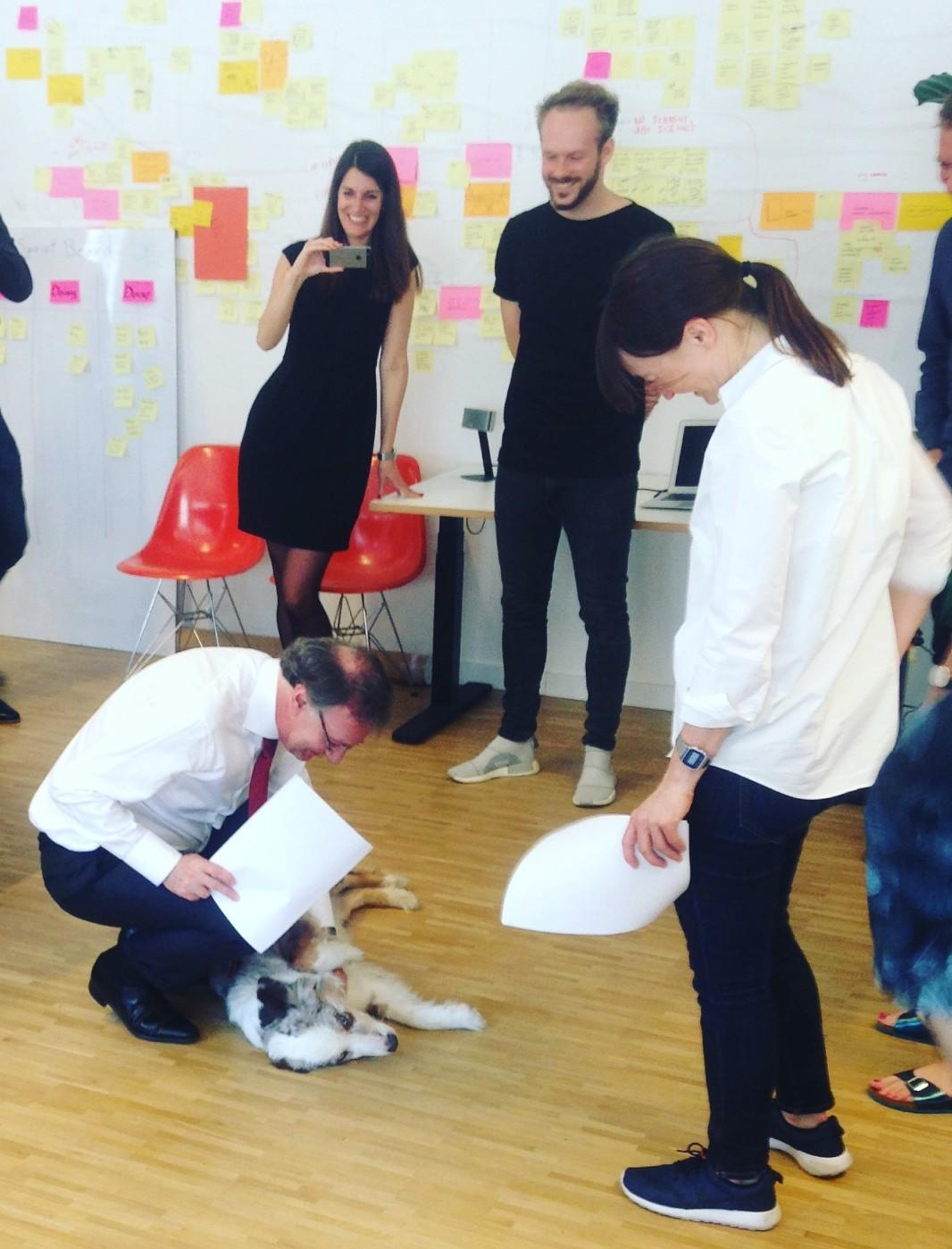 Pierre Nanterme petting a dog while visiting the design firm Fjord's Berlin studio